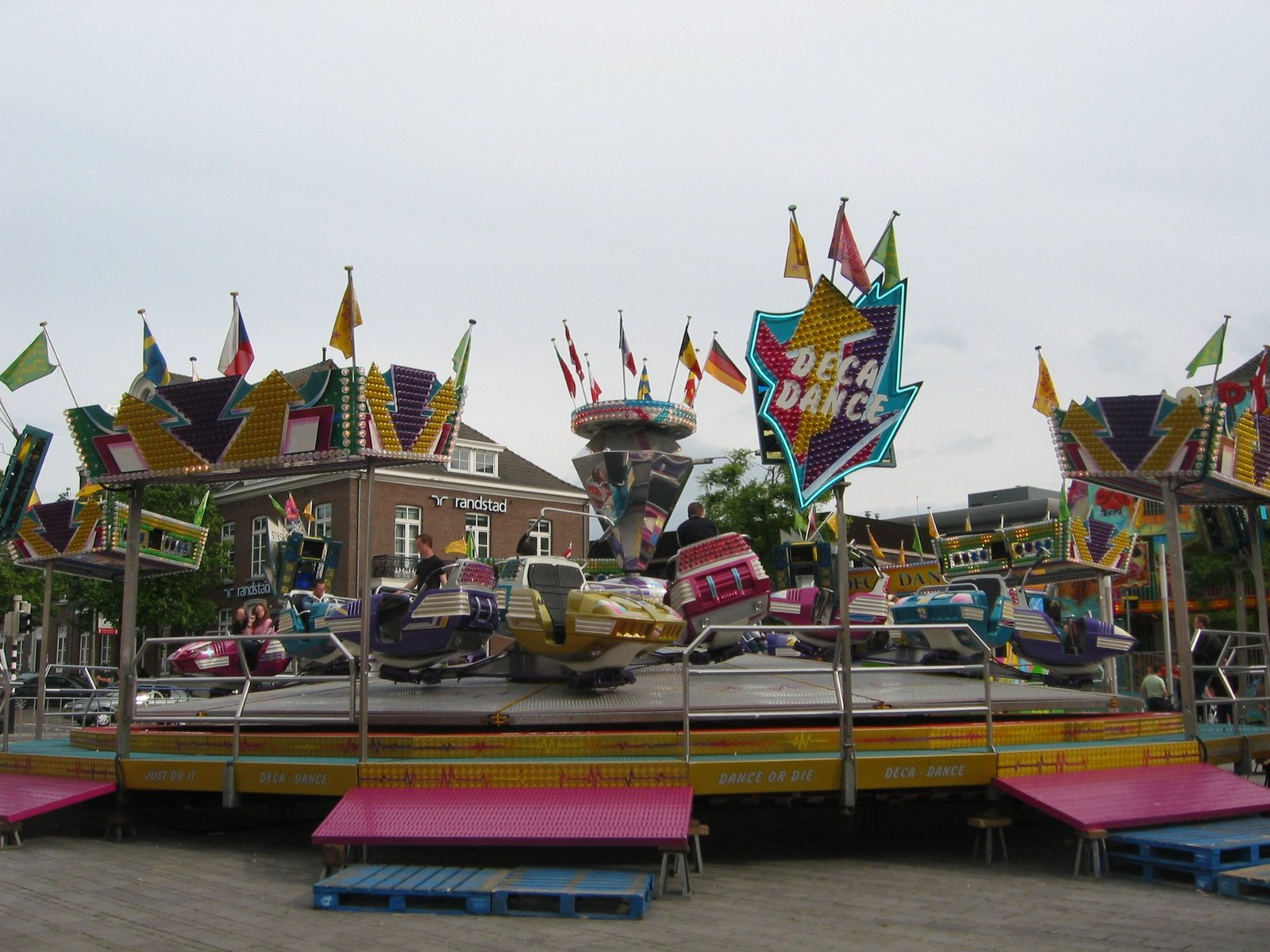 Deca Dance in Roermond (Netherlands)